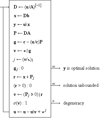 Simplex algorithm in Iverson notation[12][13]